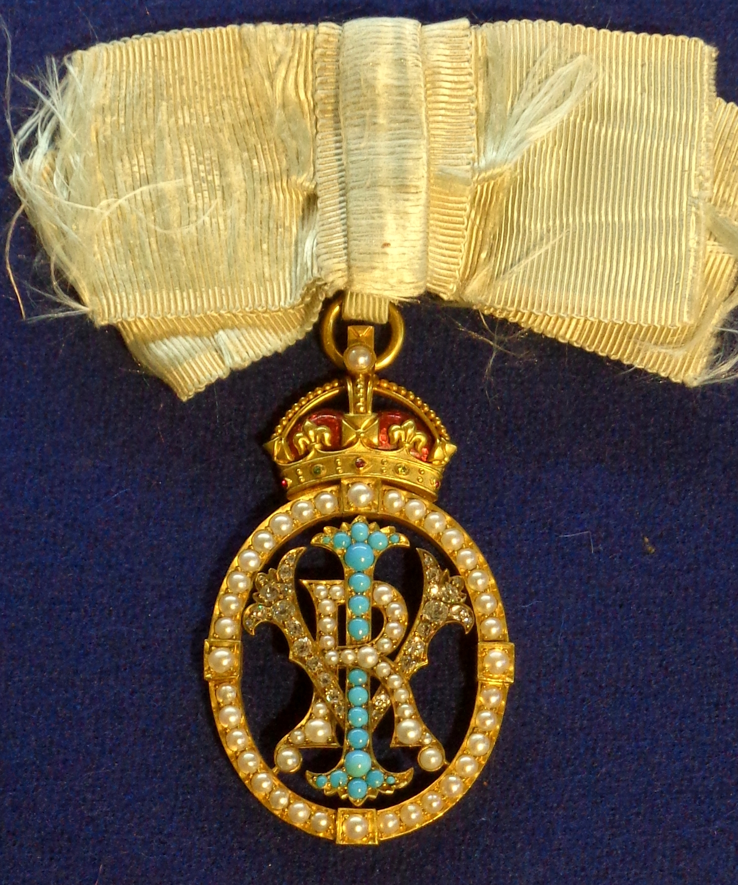 Order of the Crown of India, badge, c.1878. United Kingdom. The exhibition of the Tallinn Museum of Orders of Knighthood, Estonia.